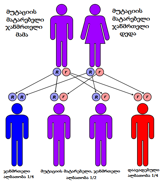 აუტოსომურ-რეცესიული დამემკვიდრების სქემატური გამოსახულება